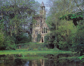 Victorian Folly, Crimplesham